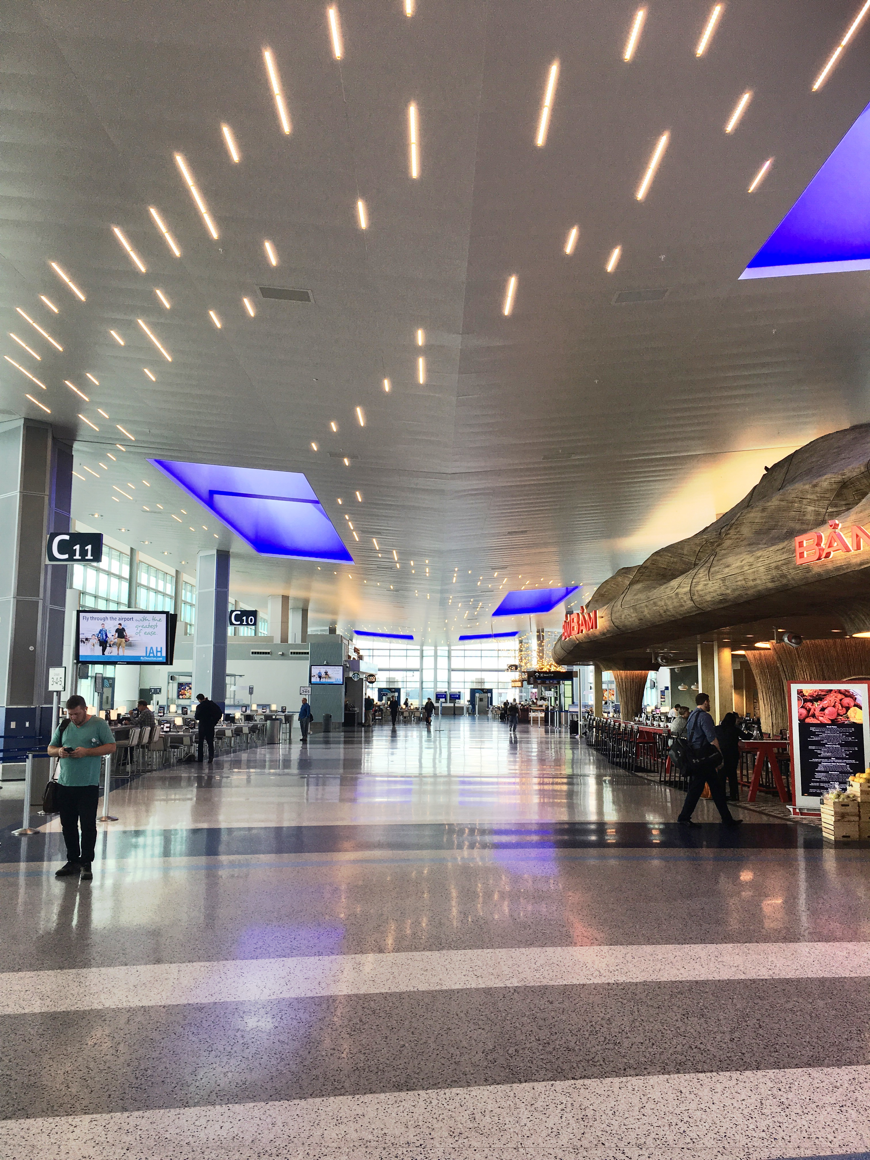 New C North at IAH